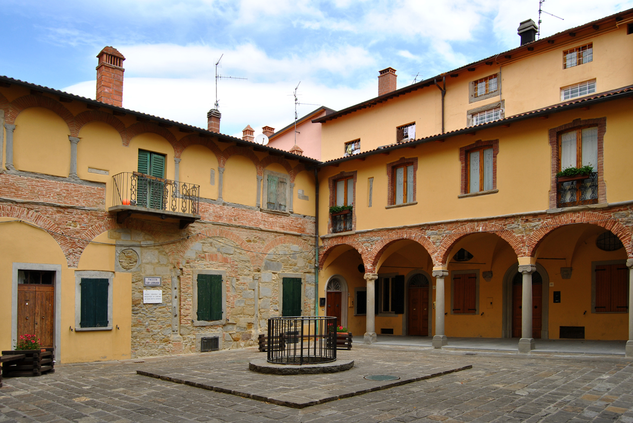 Monghidoro, Bologna, Italy: The cloister of St Michael Abbey (1530), actually named St Leonard's Place. Two sides of the cloister were closed during the 18th century with new walls to make common apartments. Another side, near the bell tower, was demolished after World War II.